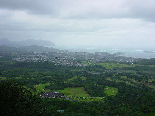 Image facing north from Nu‘uanu Pali overlook.